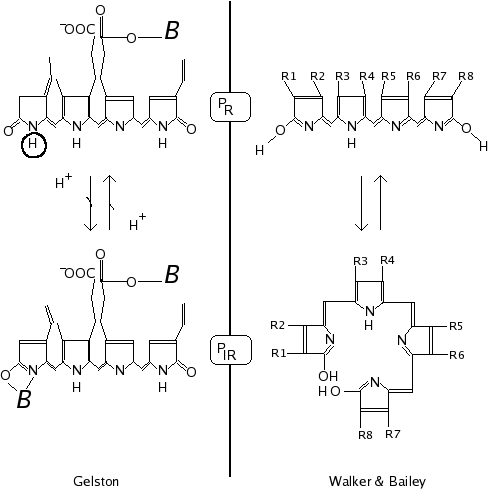 The two suggested hypothesis of the phytochrome conversions